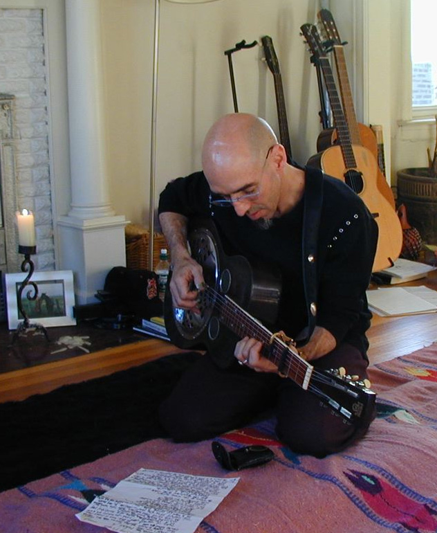 Don Conoscenti